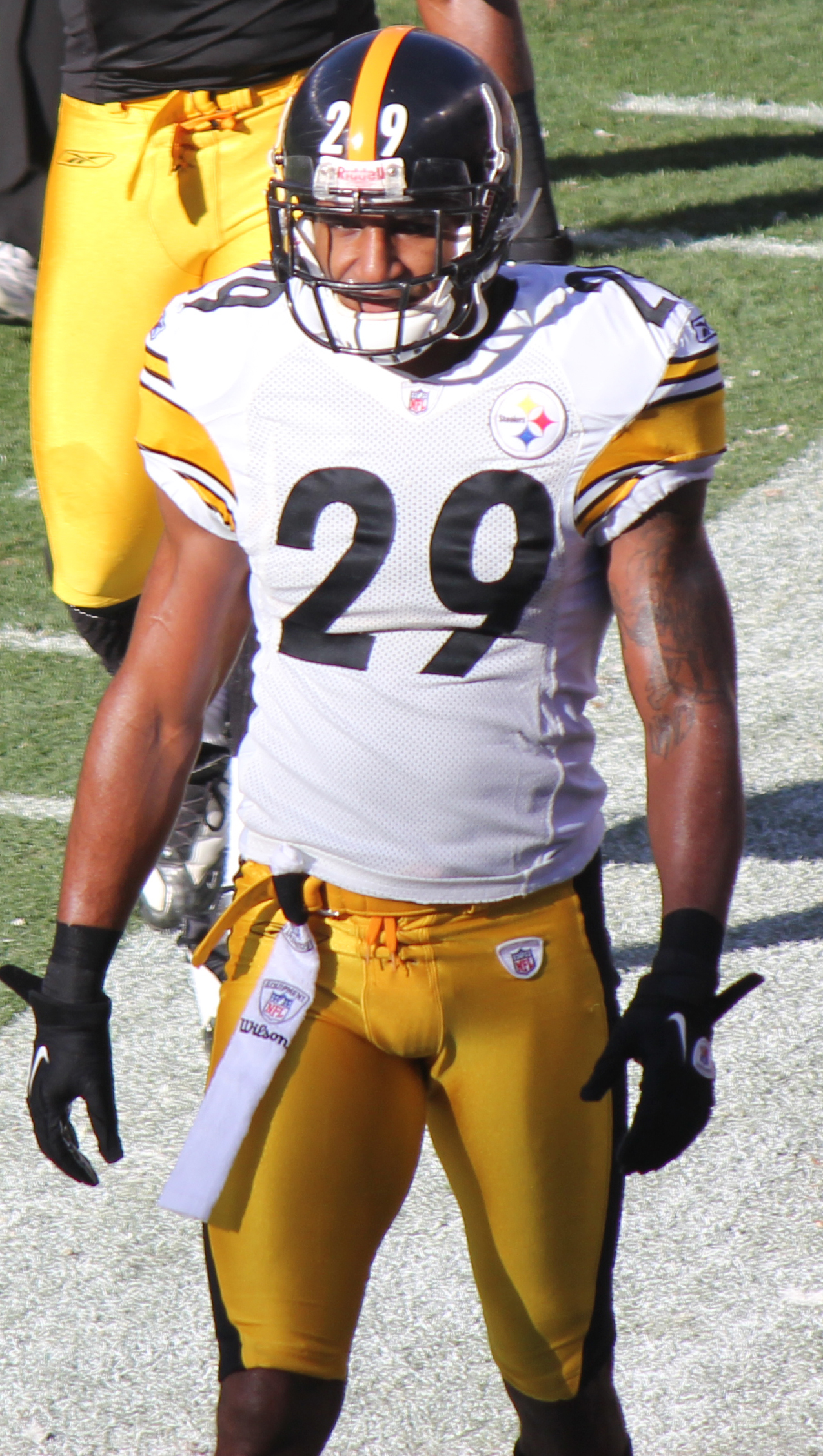 Ryan Mundy, a player on the National Football League.